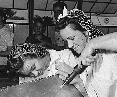 Detail of Image:Women_workers_1942.gif "Two sisters who left the farm to keep our airmen flying. NYA trainees at the Corpus Christi, Texas, Naval Air Base, Evelyn and Lillian Buxkeurple are shown working on a practice bomb shell."